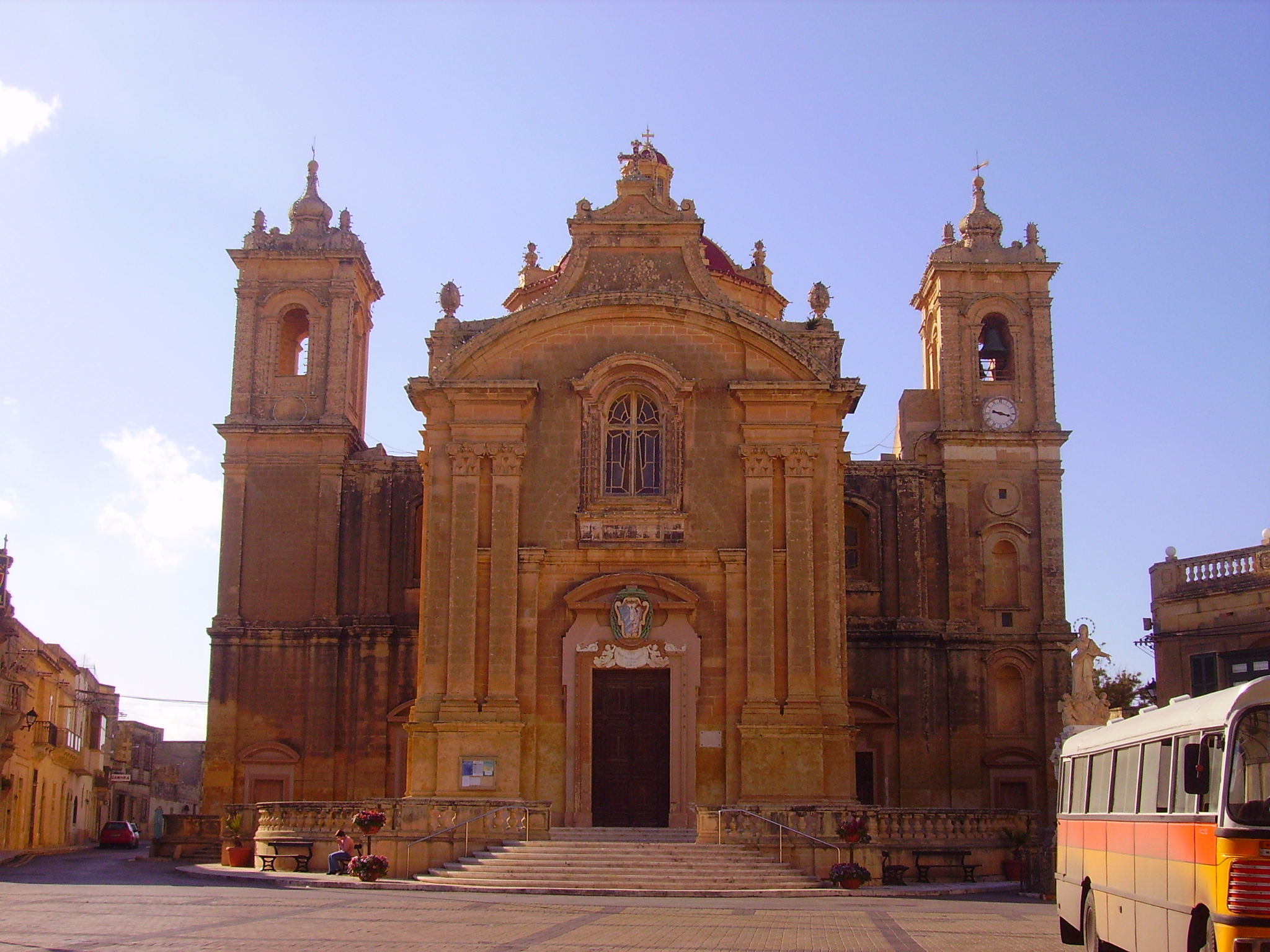 Facade of the Parish Church, Qrendi